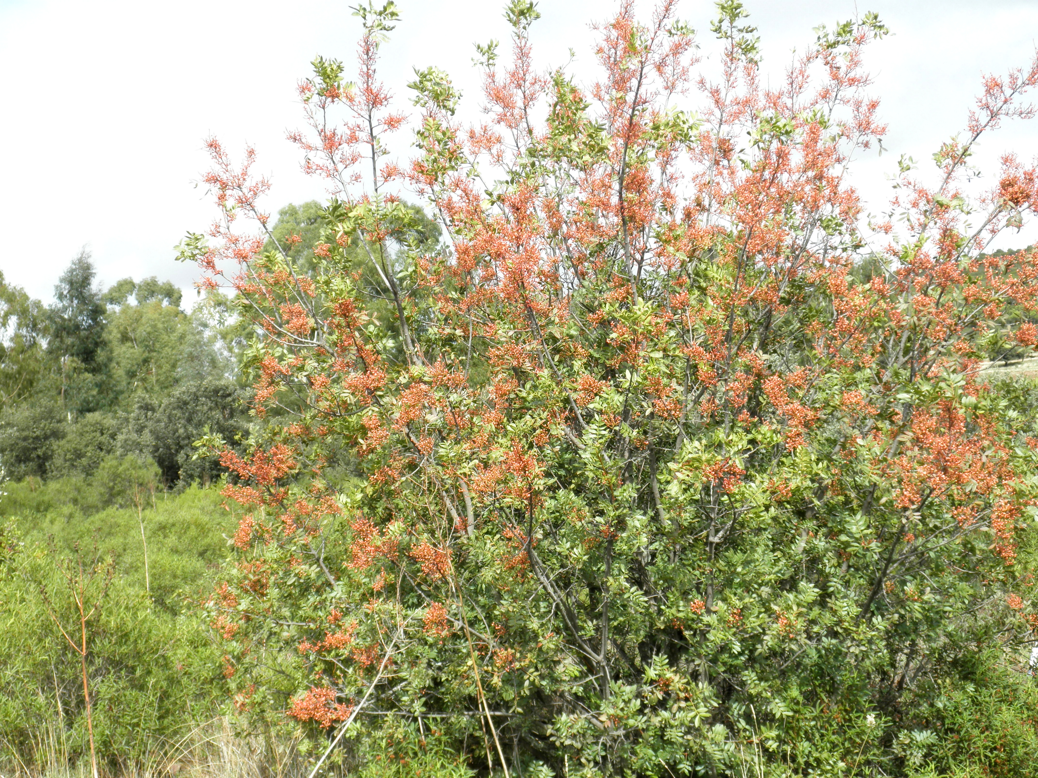 Pistacia terebinthus habit, Dehesa Boyal de Puertollano, Spain